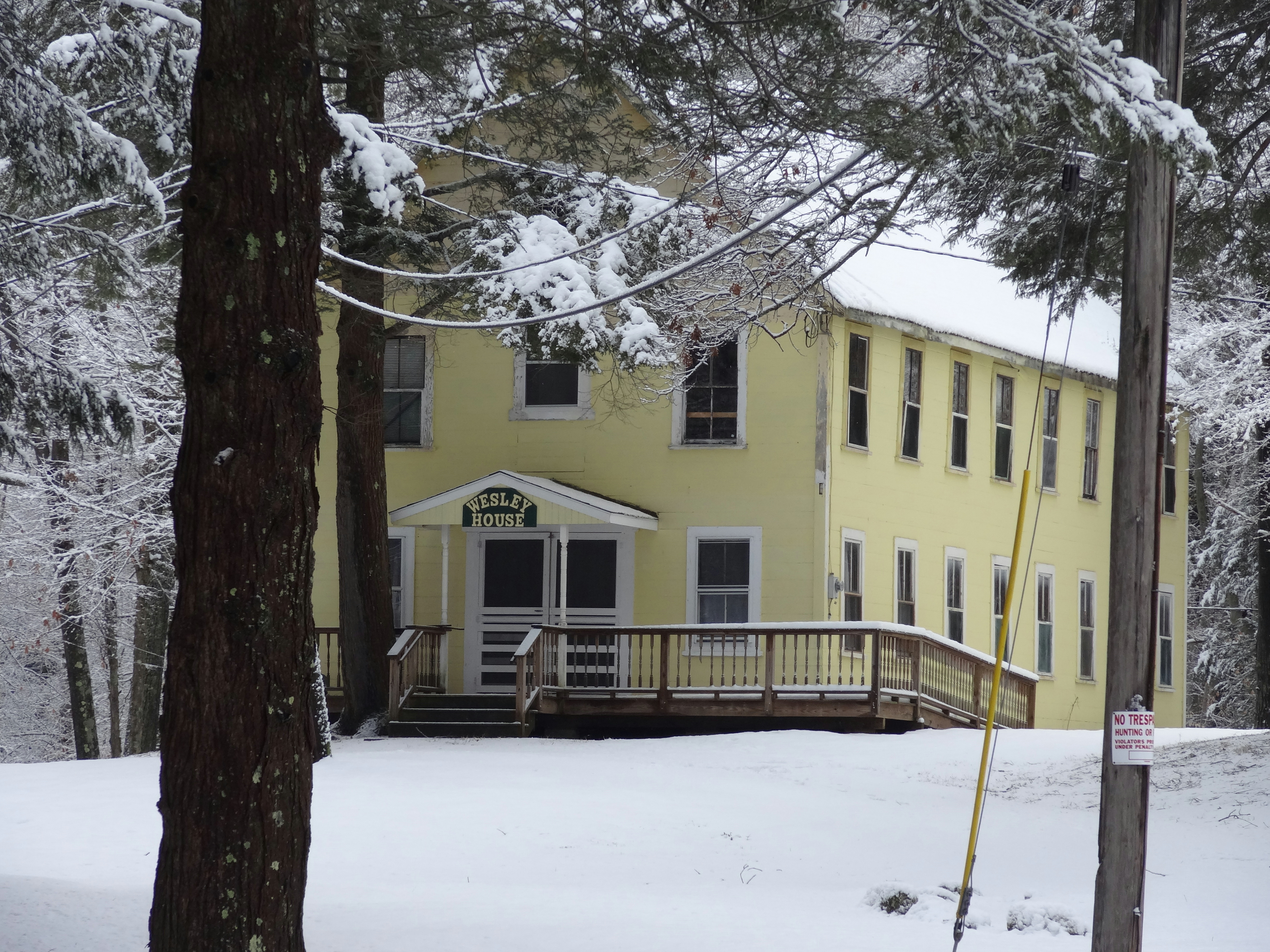 Asbury Grove South Hamilton, Massachusetts